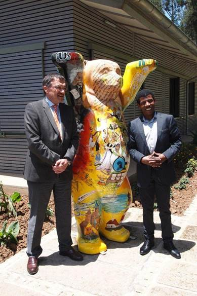 Buddy Bear - German Embassy in Addis Abeba